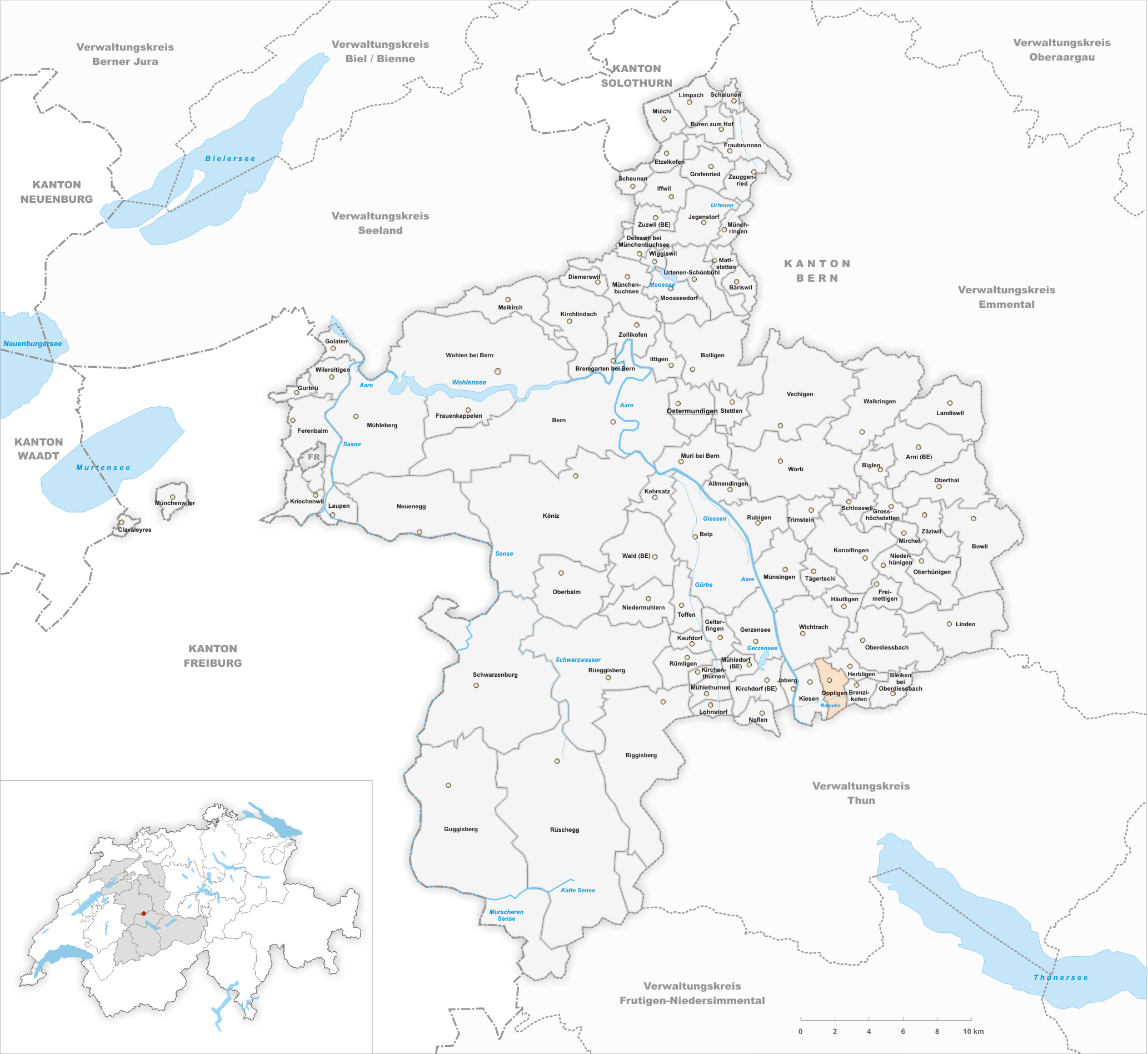 Municipality Oppligen